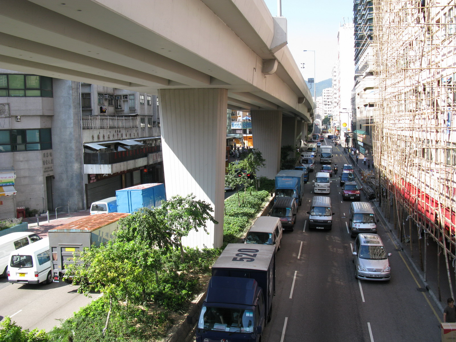 Tong Mi Road near Argyle Street